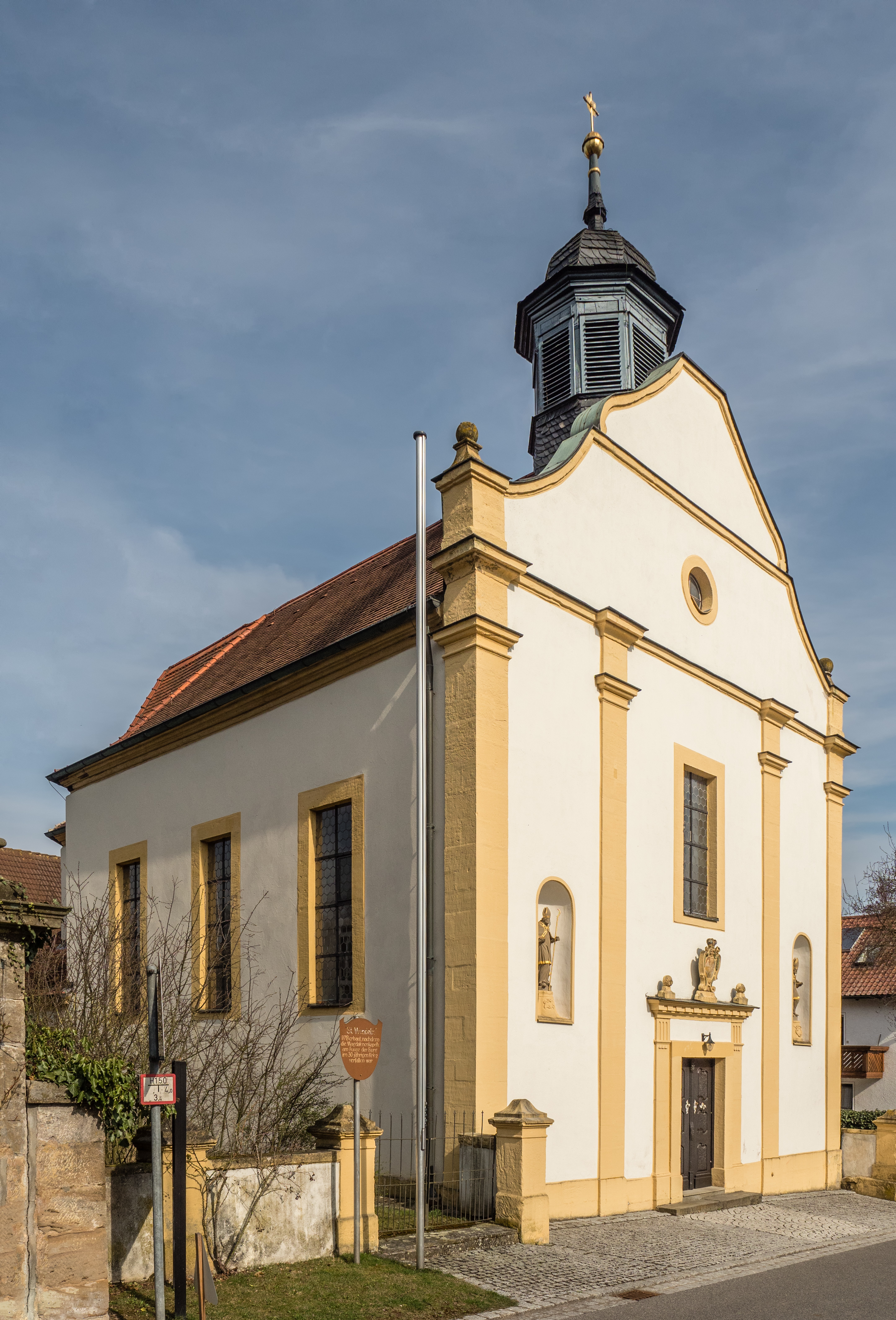 St. Wendelinus in Bramberg near Ebern